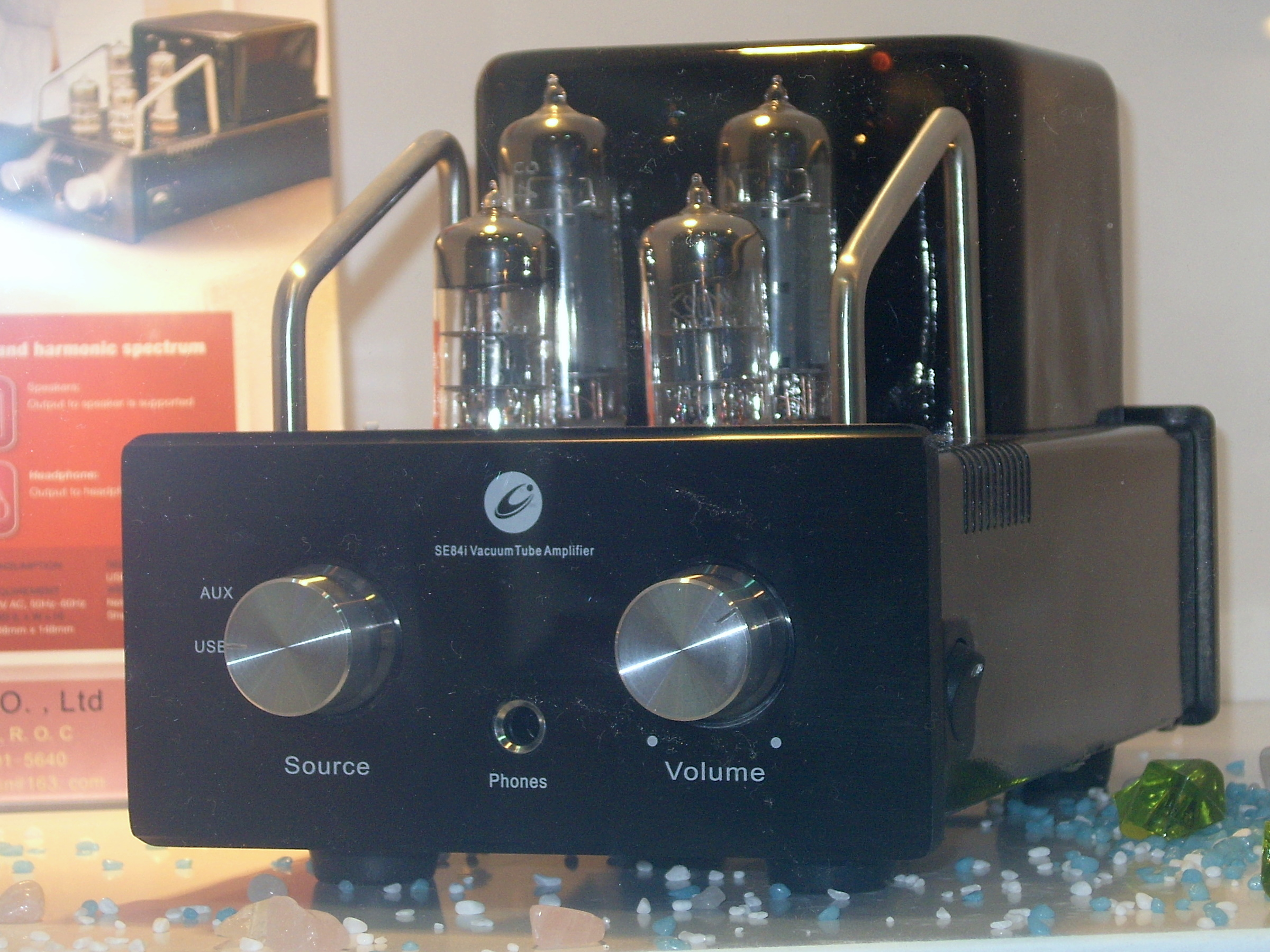 2008 Computex - Best Choice Award: Four Channel USB Amplifier.